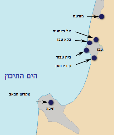 Map of the Baha'i Holy places in Israel - In Hebrew